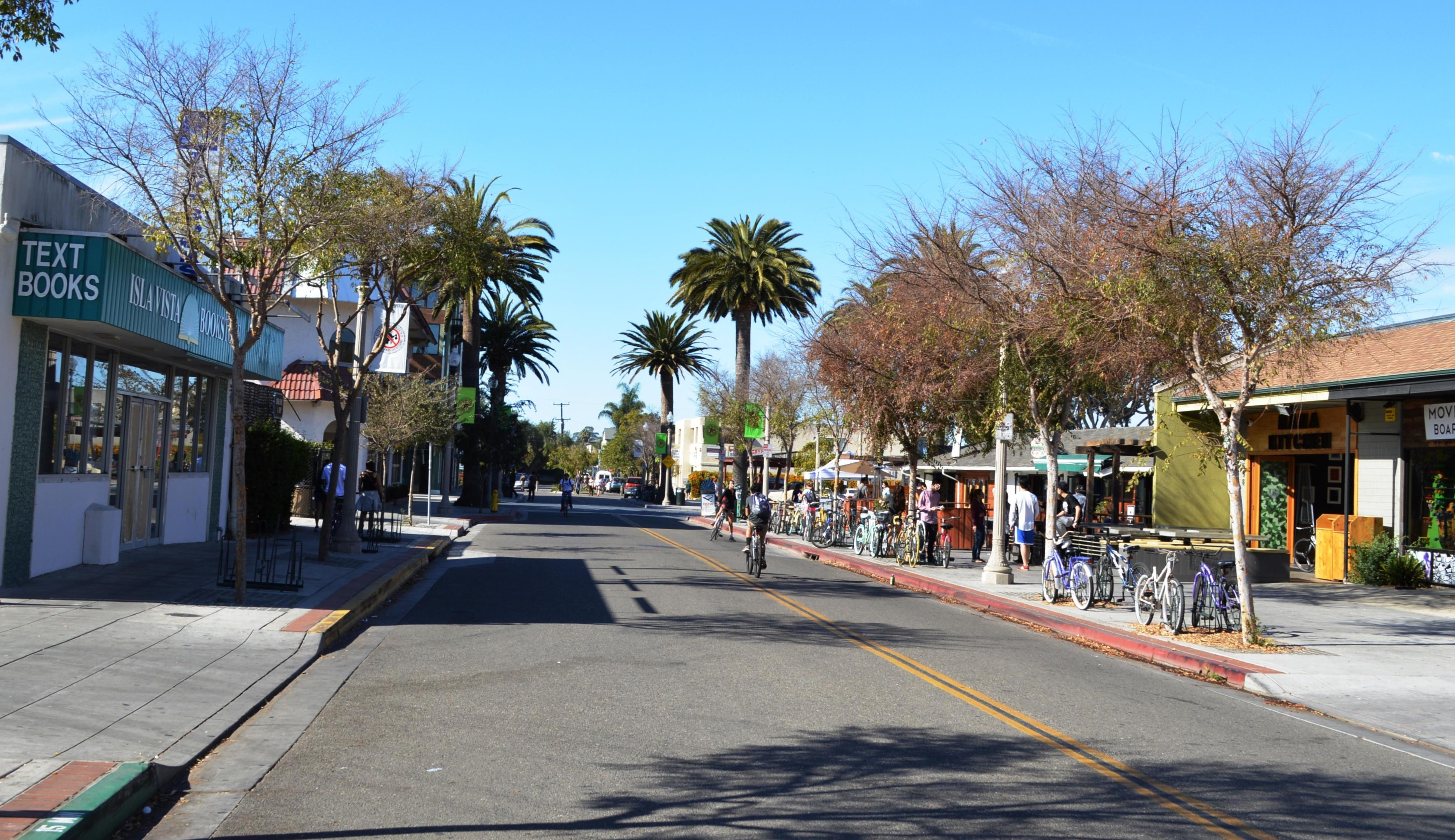 Isla Vista, California, U.S.A.